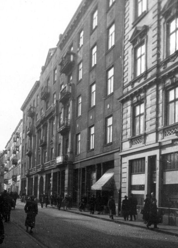 Świętojerska Street in Warsaw